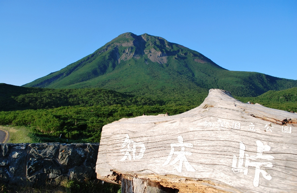 Rausu-dake from Shiretoko mountain pass view